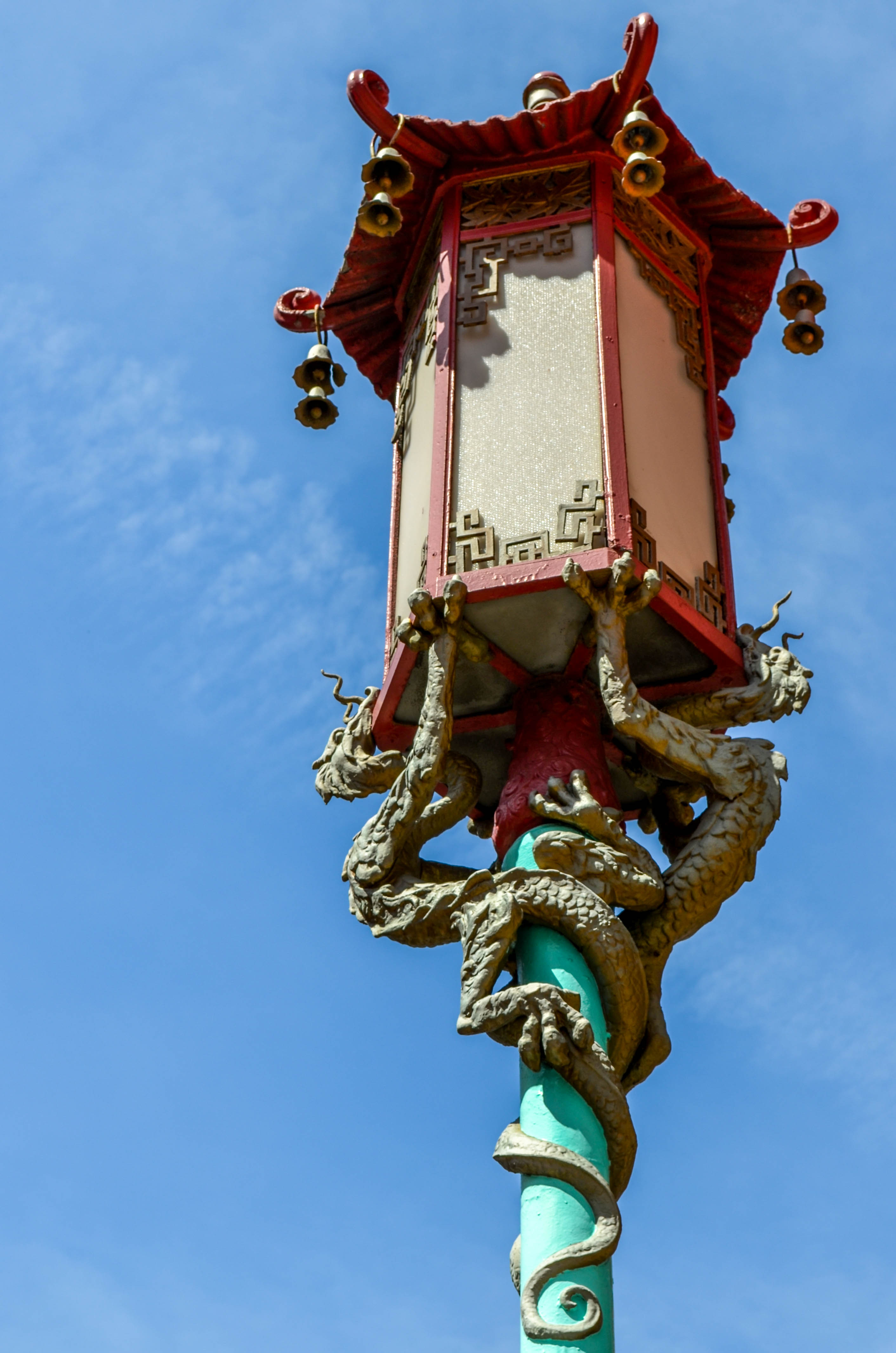 San Francisco (31) - Chinatown